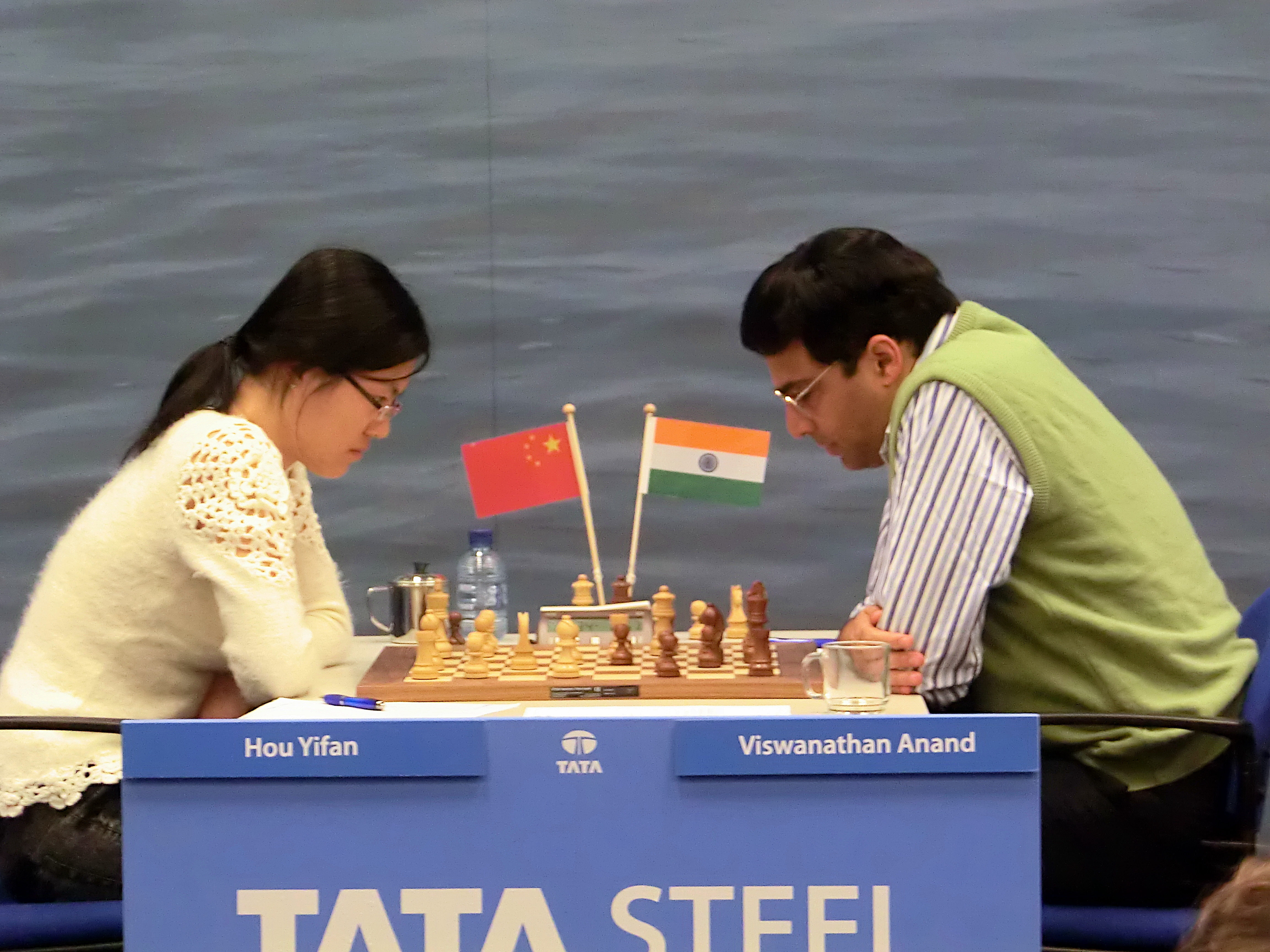 Tata Steel chess tournament 2013, Hou Yifan vs. Vishy Anand